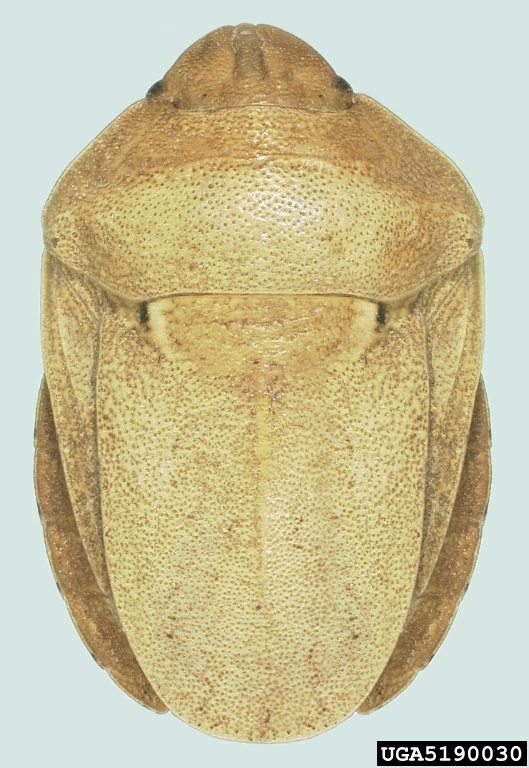 Eurygaster integriceps Puton, a sunn pest